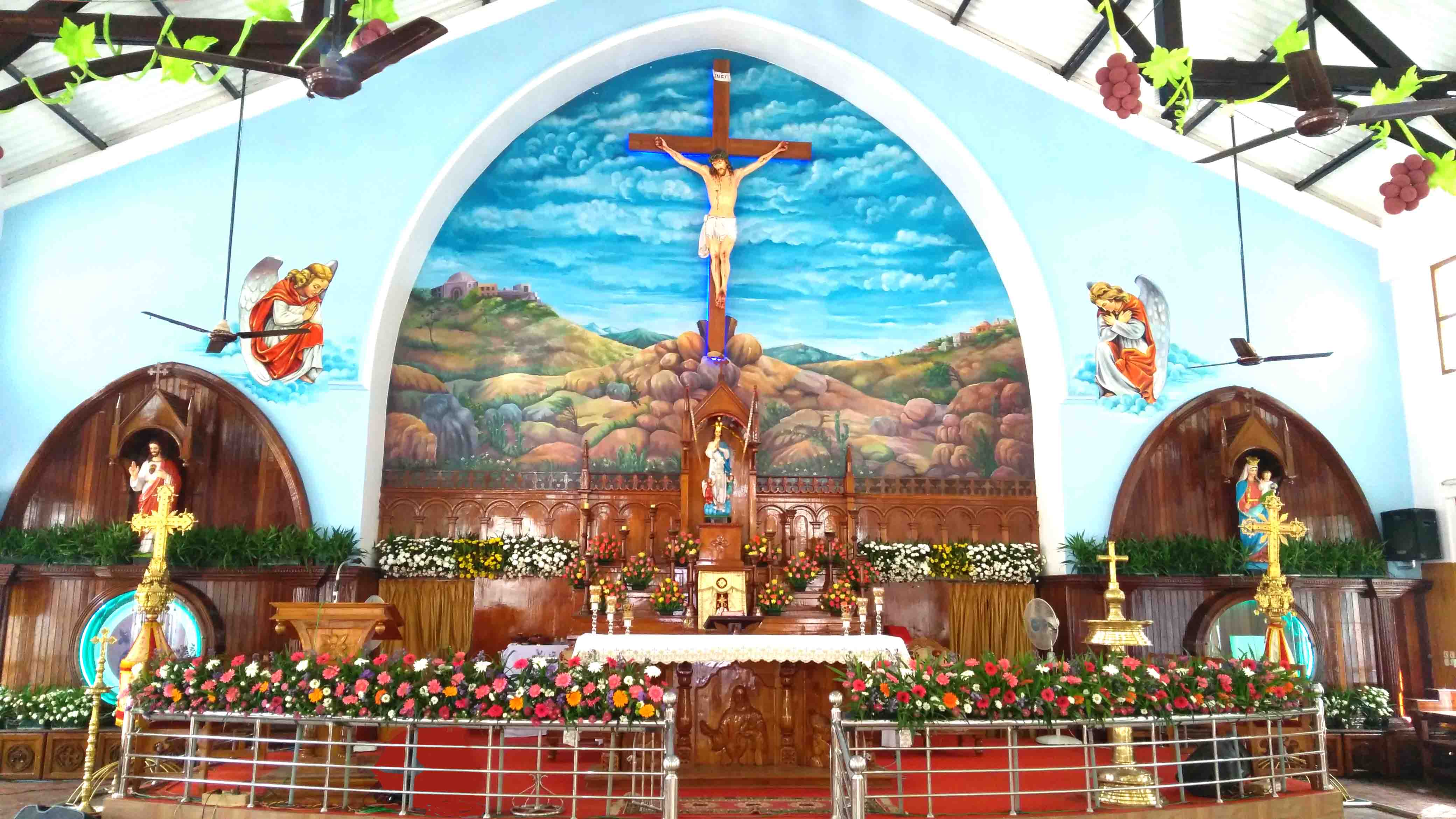 തെക്കൻ കേരളത്തിലെ അതിപുരാതനവും അതിപ്രശസ്തവുമായ തീർത്ഥാടന കേന്ദ്രമാണ് നെയ്യാറ്റിൻകര രൂപതയിലെ വ്ളാത്താങ്കരയിൽ സ്ഥിതിചെയ്യുന്ന സ്വർഗ്ഗാരോപിത മാതാവിന്റെ നാമധേയത്തിലുള്ള ഫെറോനാ ദൈവാലയം.